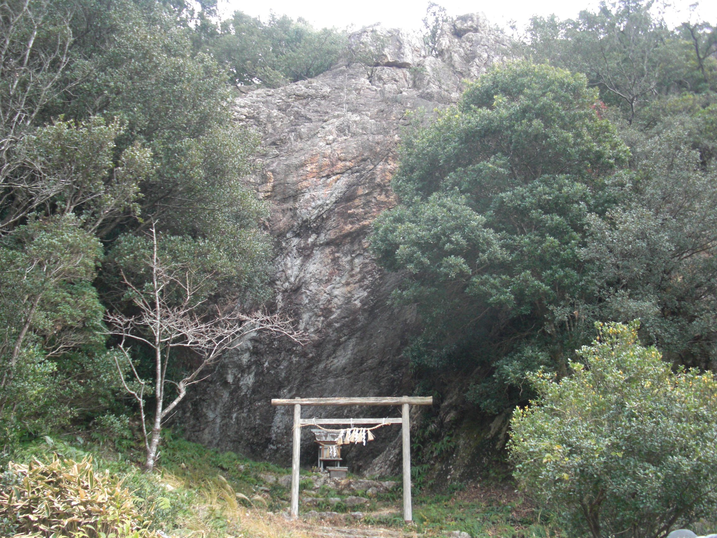 This is a rock in Shima,Mie,Japan.